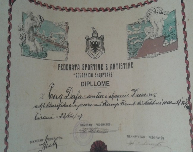 1000 m viti 1937